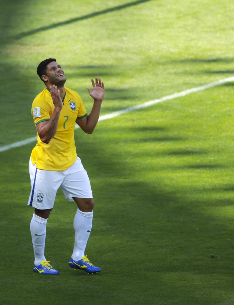 Brazil vs. Chile in Mineirão